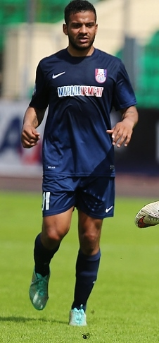 Lorenzo Ebecilio